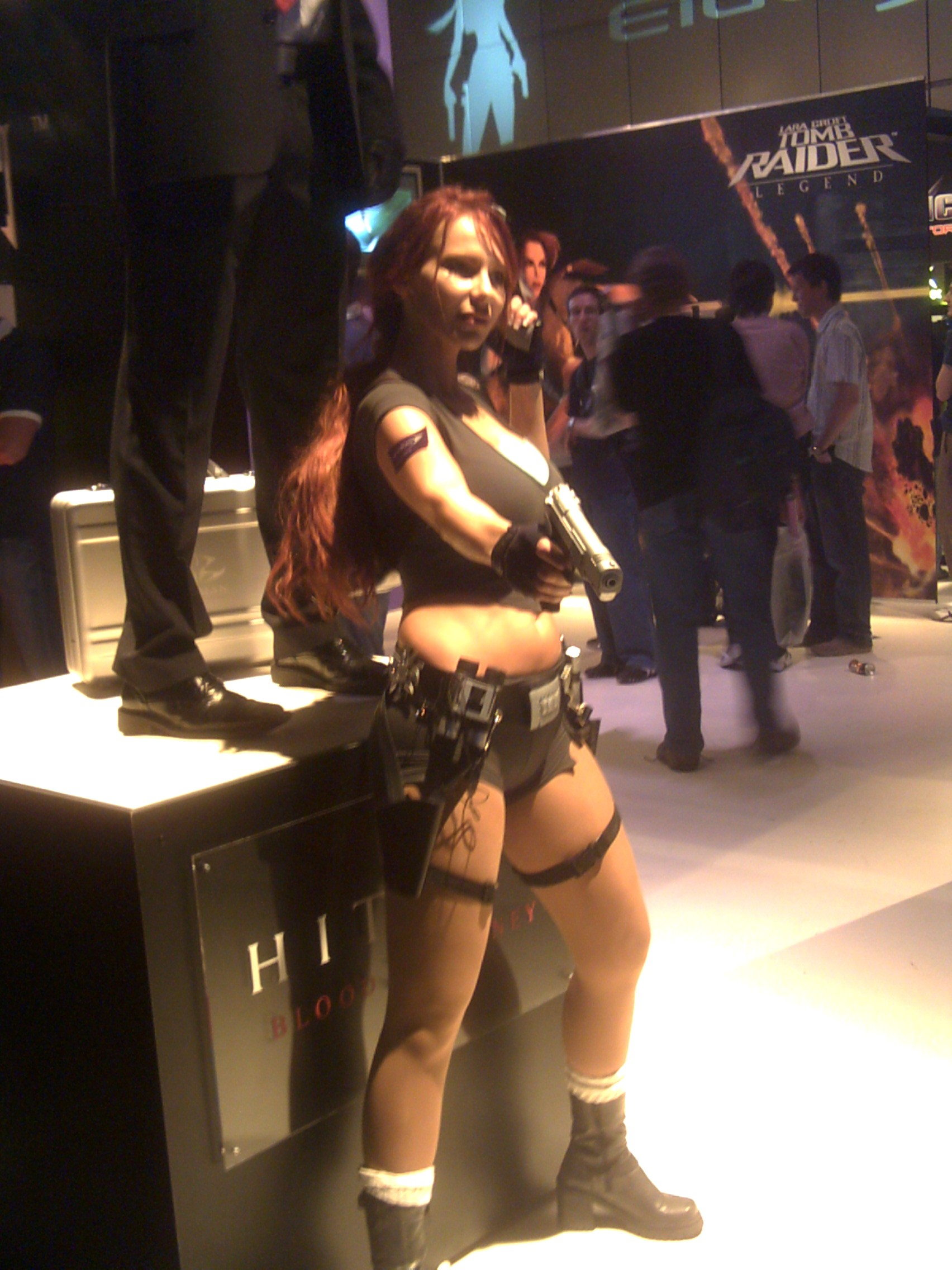 Real Lara Croft at the Games Convention 2005 in Leipzig/Germany creator:Thomas Richter/user:THOMAS